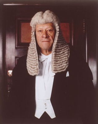 Hon Sir Peter Tapsell KNZM, MBE. Speaker of the NZ House of Representatives 1993-1996.